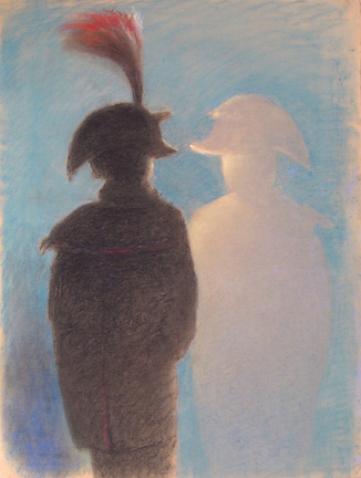 "Meeting," 2007, Pastel, 24x17